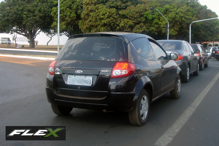 New generation of Brazilian Ford Ka Flex 2008. Brasilia, Brazil.